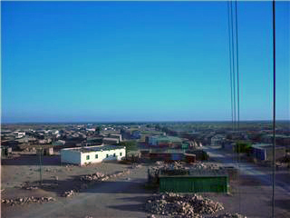 The City of Elbuh